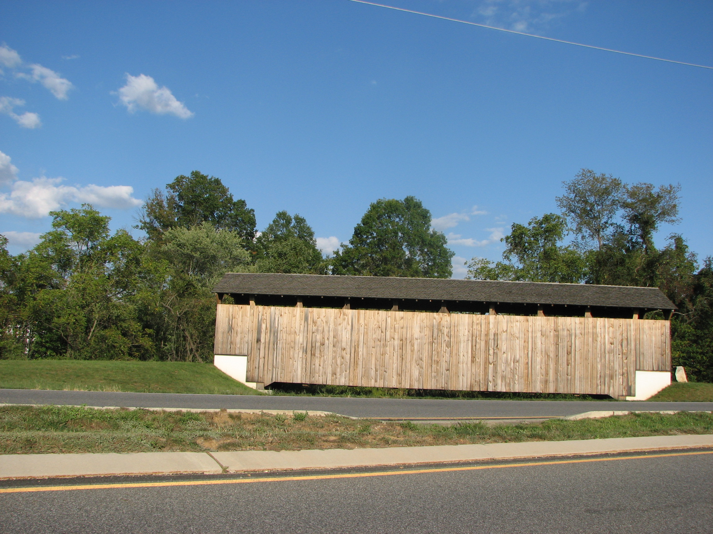 Larkin Covered Bridge in its restored position adjacent to Graphite Mine Road in Upper Uwchlan Township, Chester County, Pennsylvania.